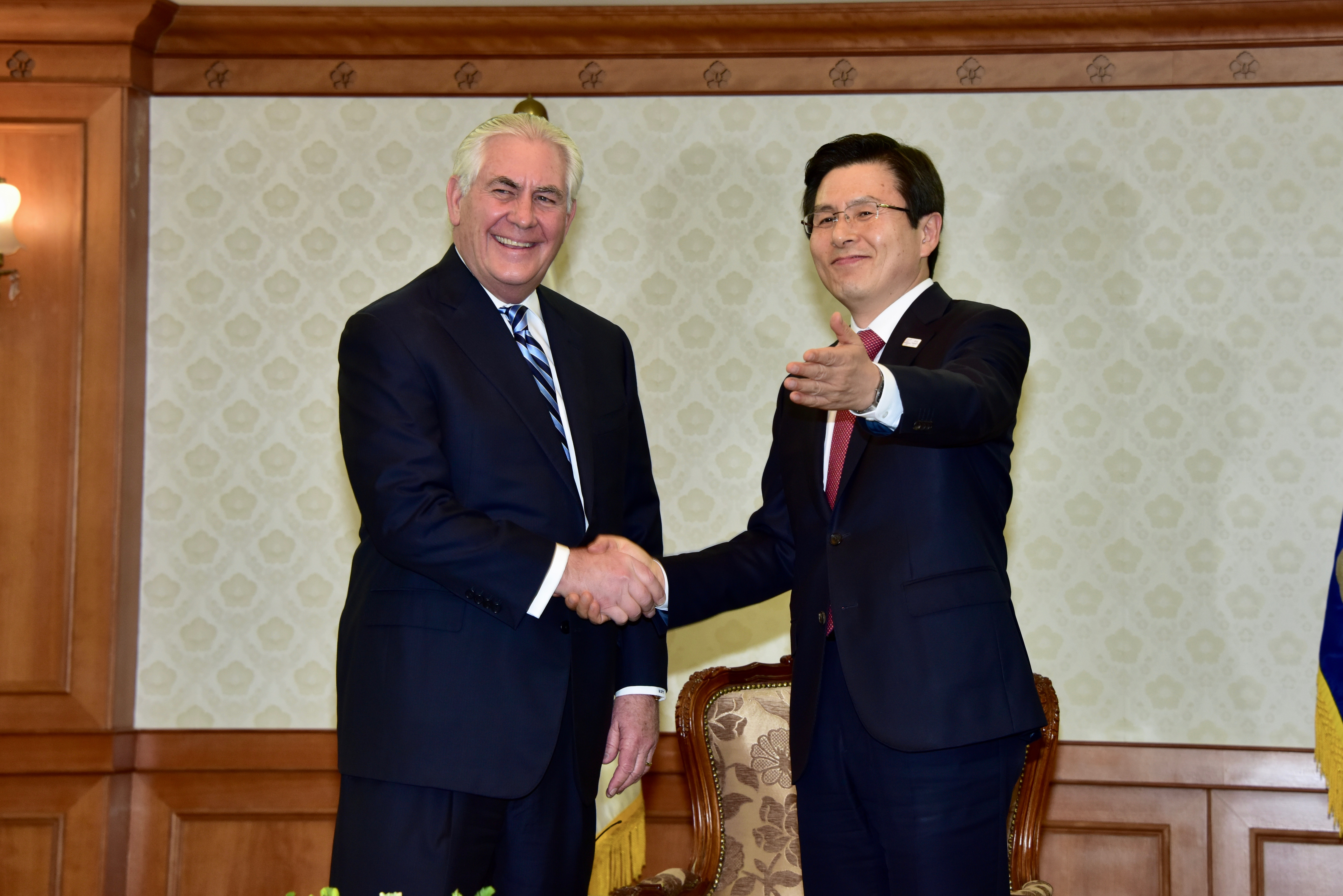 U.S. Secretary of State Rex Tillerson shakes hands with South Korean Acting President Hwang Kyo-ahn before their bilateral meeting in Seoul, South Korea, on March 17, 2017. [State Department photo/ Public Domain]